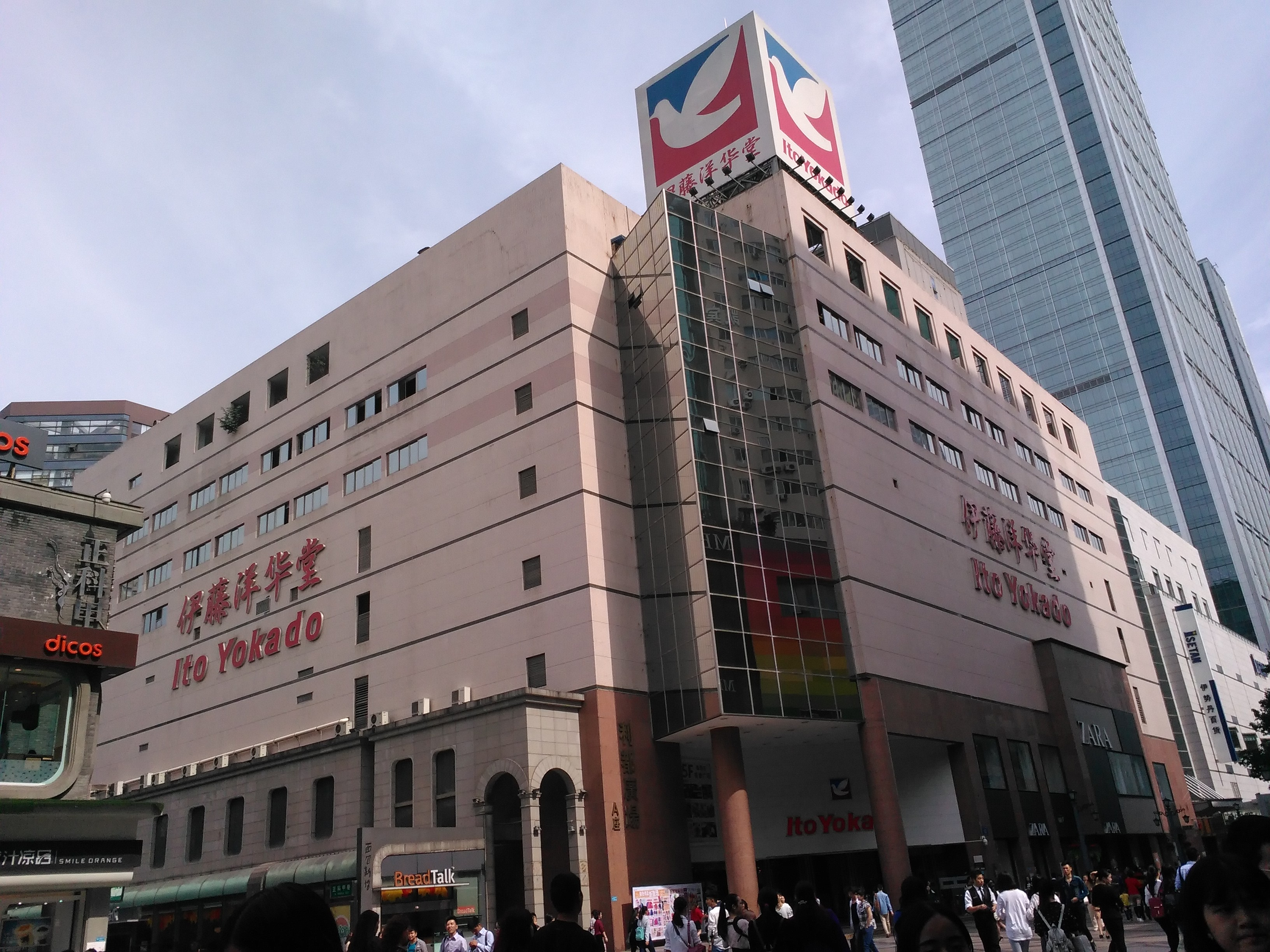 Ito Yokado Chengdu